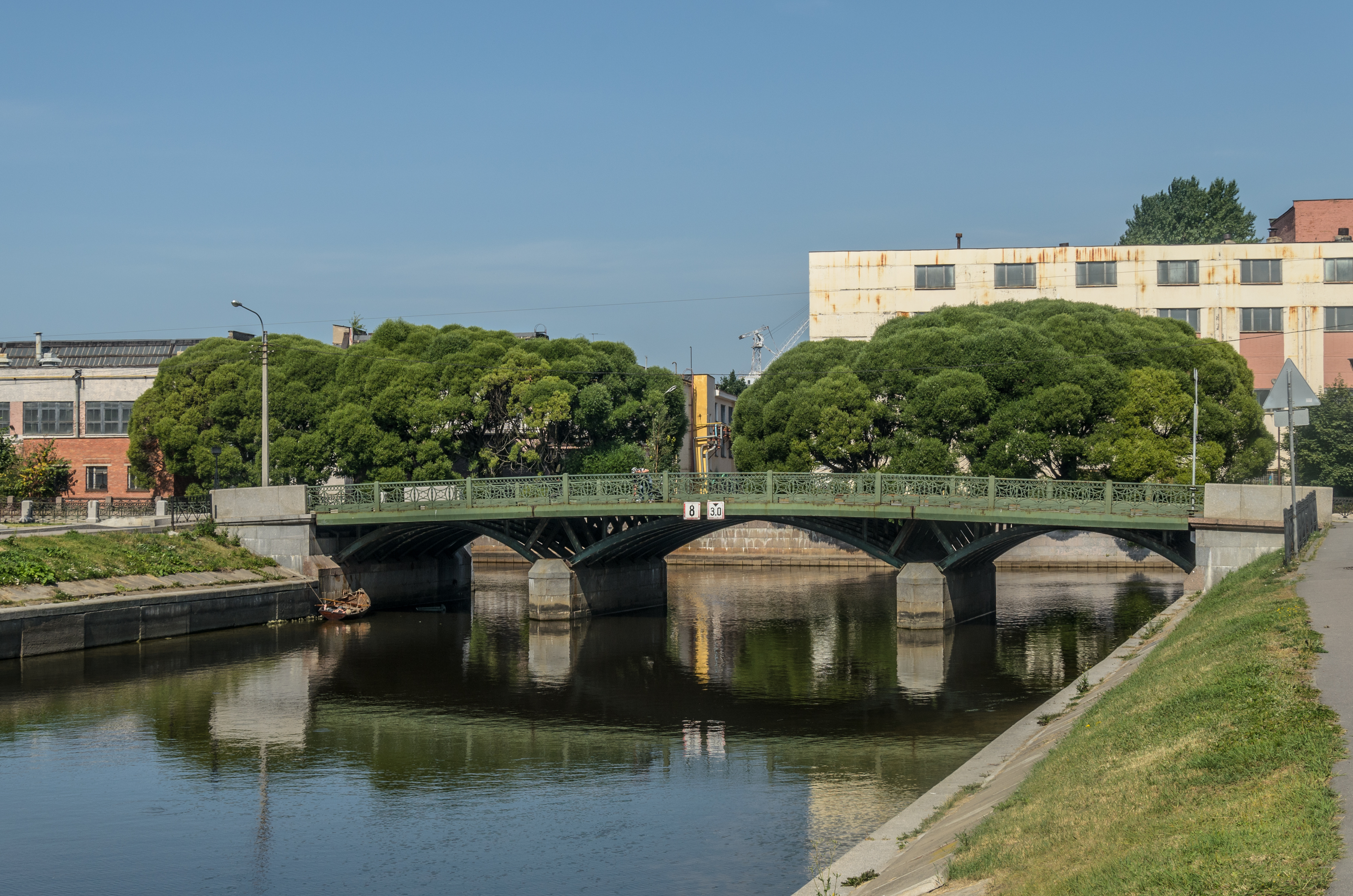 Matisov Bridge in Saint Petersburg